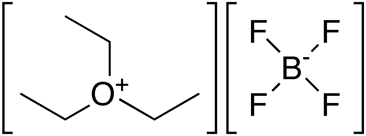 chemical structure of triethyloxonium tetrafluoroborate